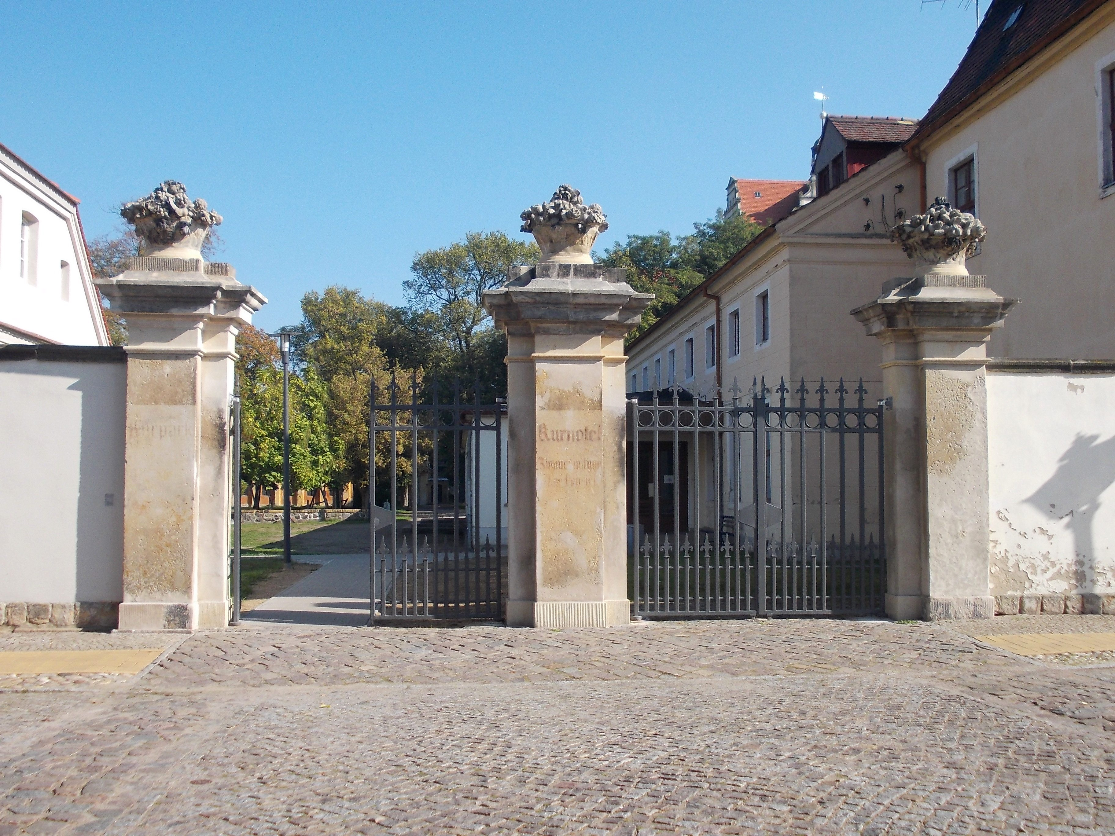 Pretzsch Castle (Bad Schmiedeberg, Wittenberg district, Saxony-Anhalt)